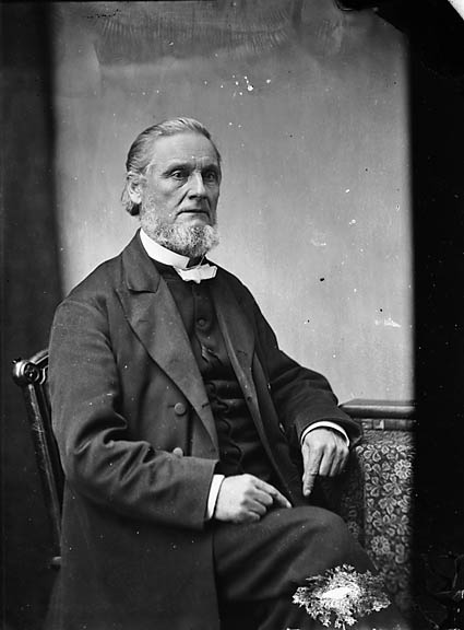 1 negative : glass, wet collodion, b&w ; 11 x 8.5 cm.